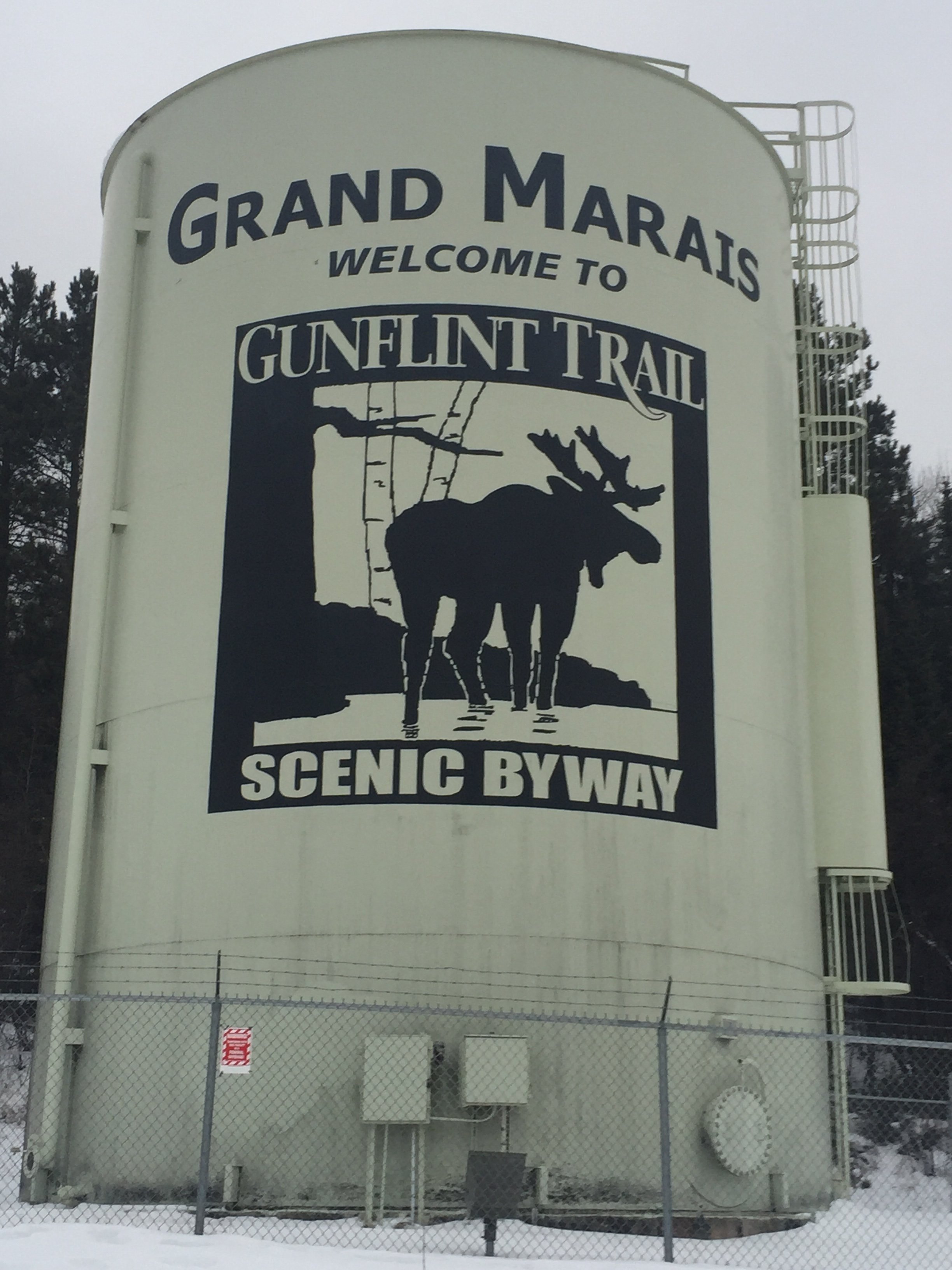 A mural of the Gunflint Trail scenic byway on a water tower.